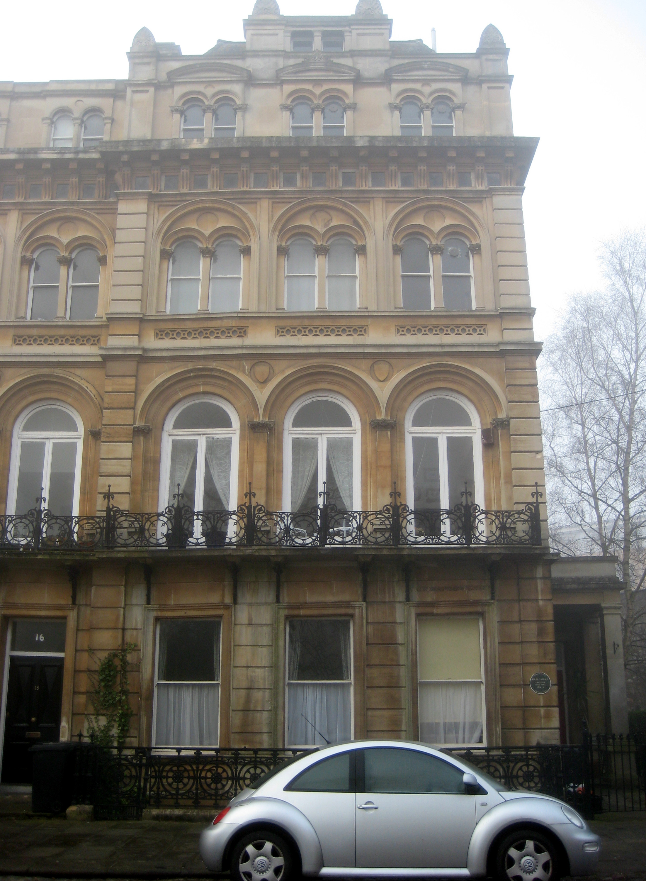 15 Victoria Square, Bristol, the former home of cricketer W.G. Grace